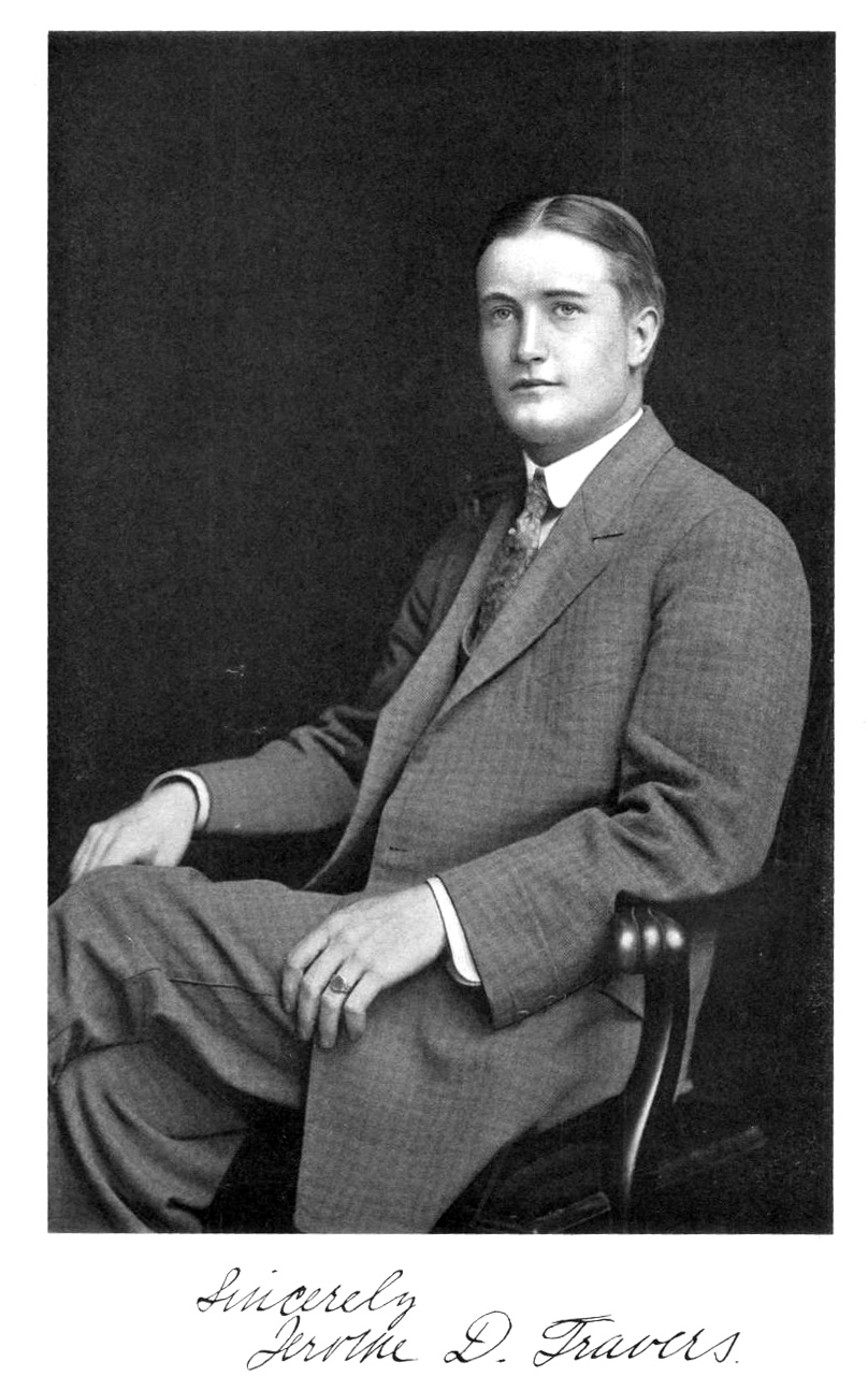 Jerome Travers in about 1908.